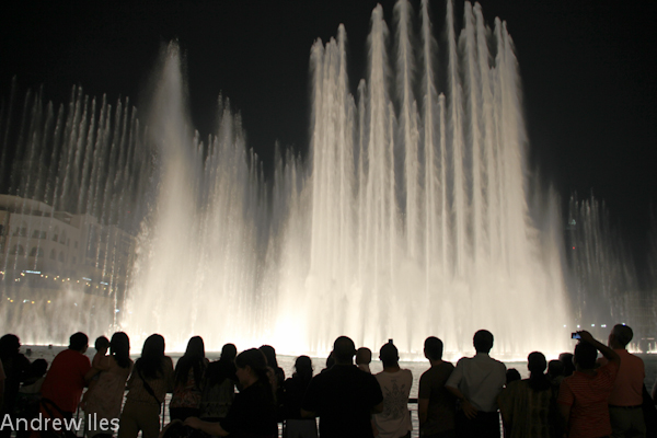 Dubai fountain-9